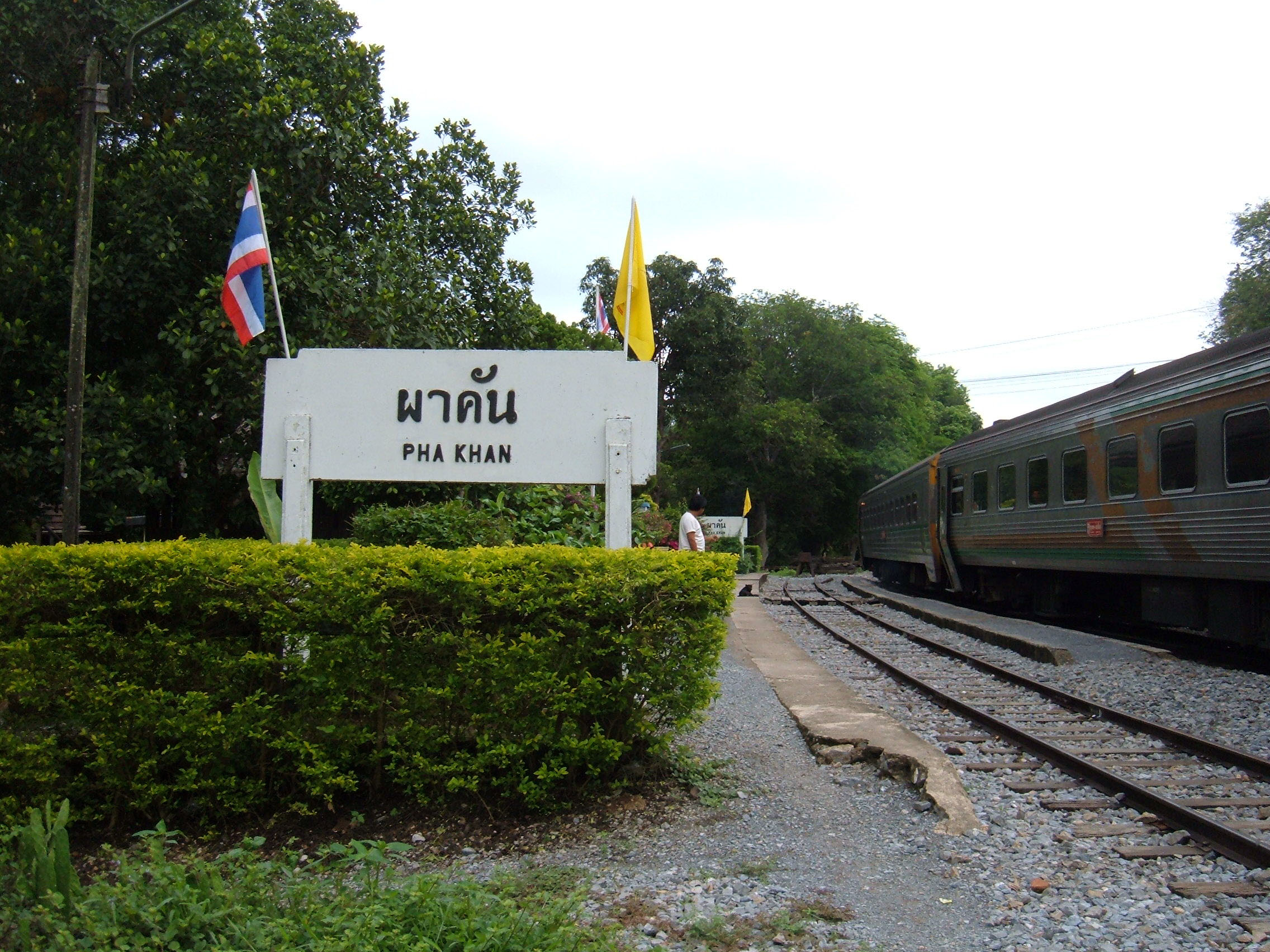 Pha Khan, Long District, Phrae Province, a stop along the Northern Line of the State Railway of Thailand.